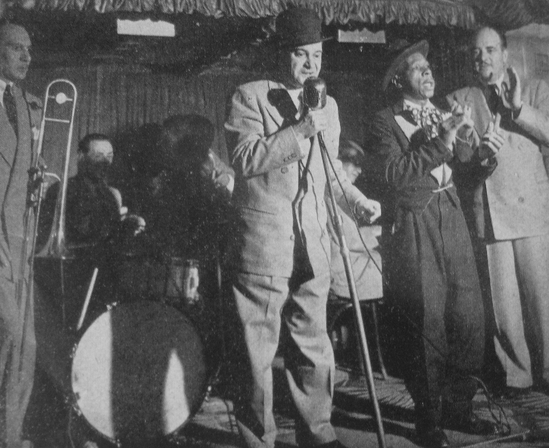 Sharkey Bonano & band on stage in New Orleans, 1950. Published caption: SHARKEY BONANO. The man at the mike plays the cleanest Dixieland trumpet style in New Orleans. Others pictured: Santo Pecora, trombone; Monk Hazel, drums; dancer Isaac "Pork Chops" Mason; clarinetist Lester Bouchon. Notes: Probably photographed on Bourbon Street, French Quarter. Dancer "Pork Chop" was part of dance duo "Pork Chop & Kidney Stew" who danced in the streets busking for tips; Sharkey regularly invited them into the club and up on stage with him during the evening show and the the three would perform a comic dance together. Lester Bouchon also played saxophone.